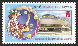 Homieĺ state circus.